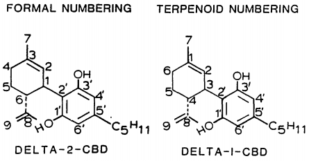 Cannabidiol numbering